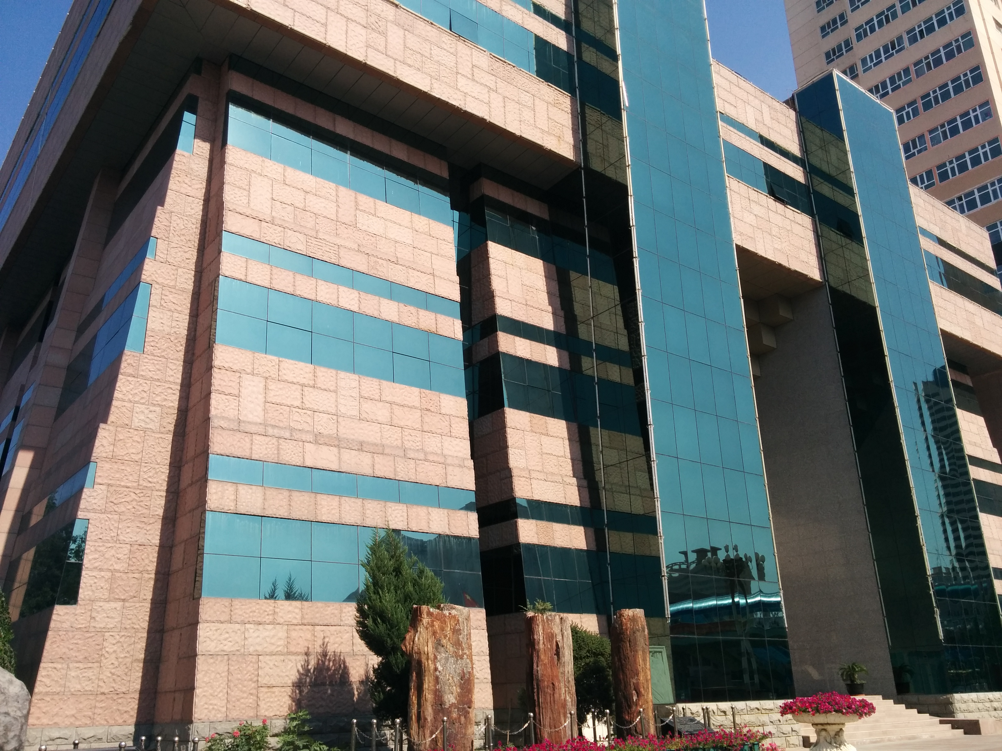 Xinjiang Geological and Mineral Museum